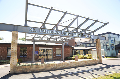 Entrance to St. Patrick's University Hospital, Ireland's largest independent not-for-profit mental health service provider